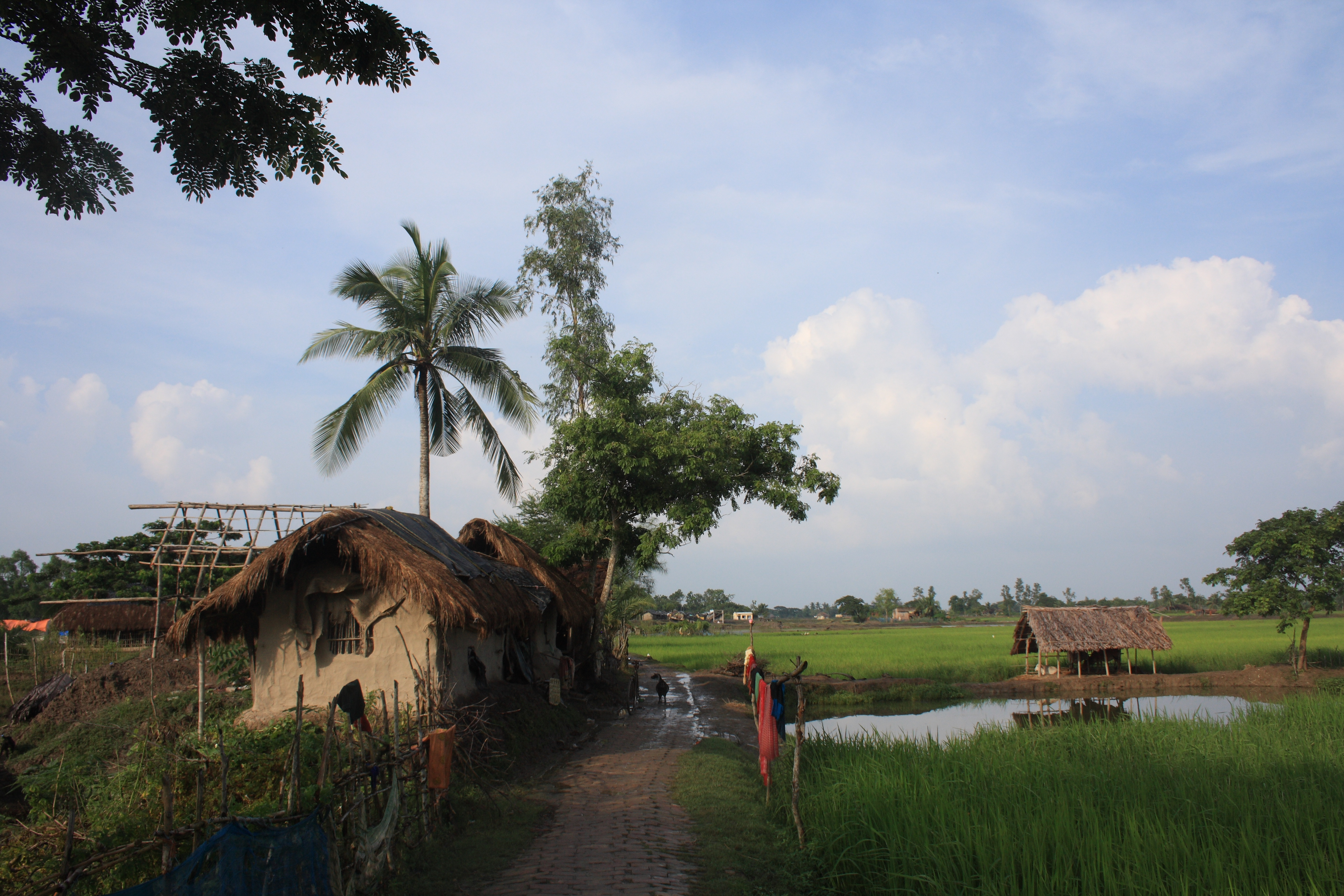 A mud farm house on an island in the ganges delta, sunderban area, India.